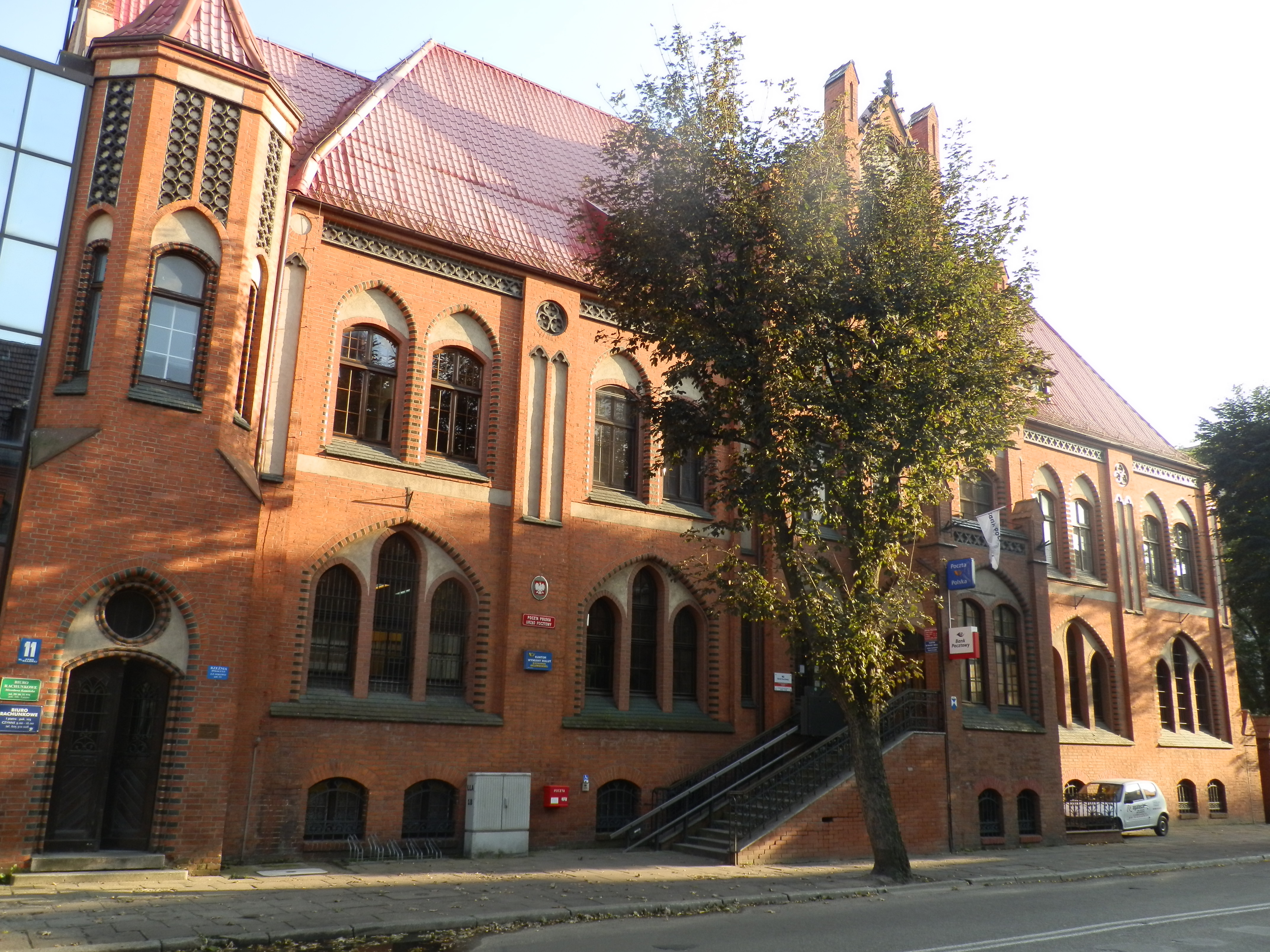 Post office building in Lębork